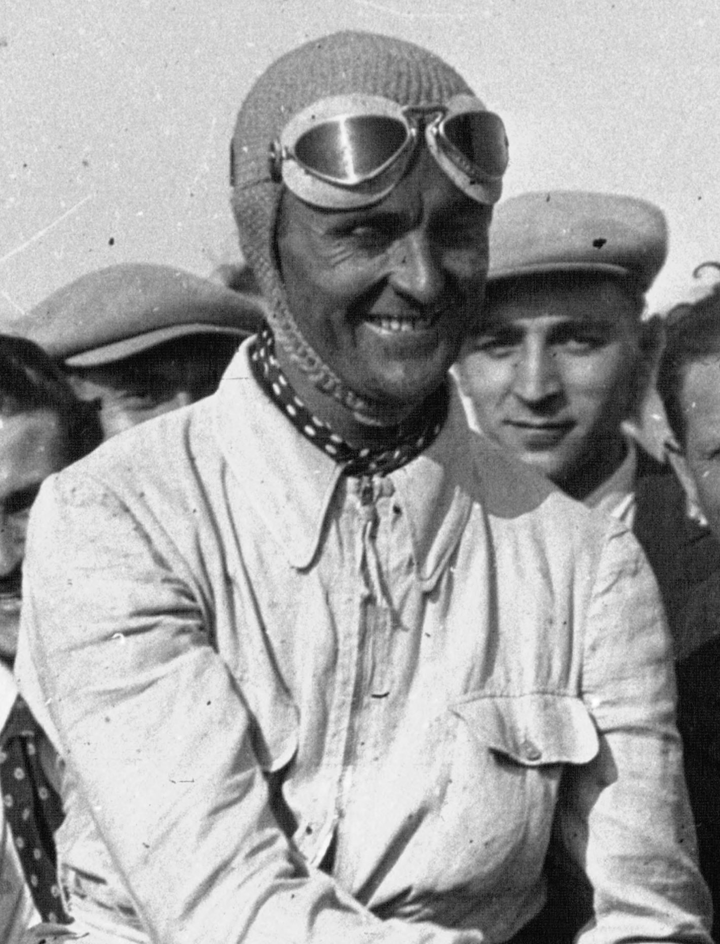 Louis Chiron after winning the 1934 French Grand Prix